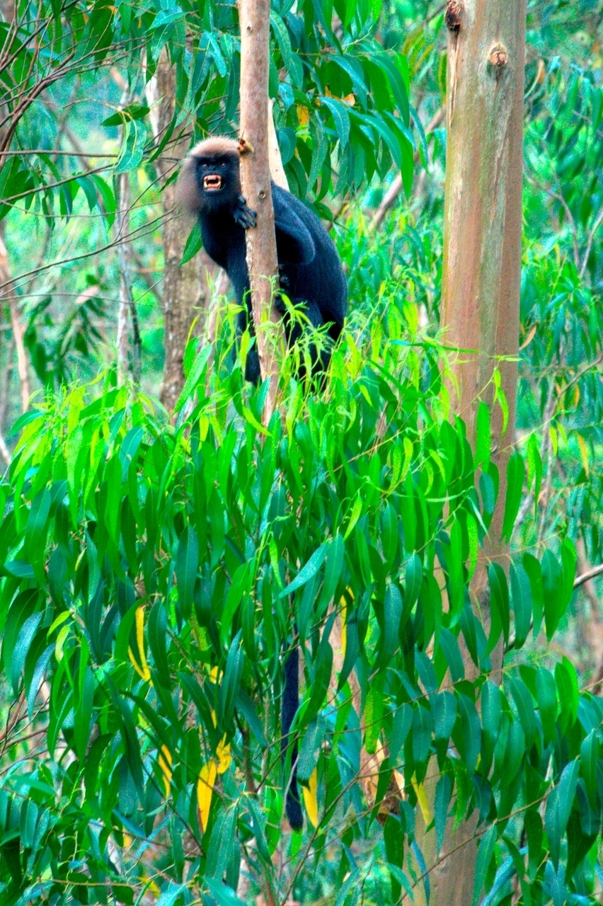 Lion tailed macaque on road from Vandiperiyar to Gavi